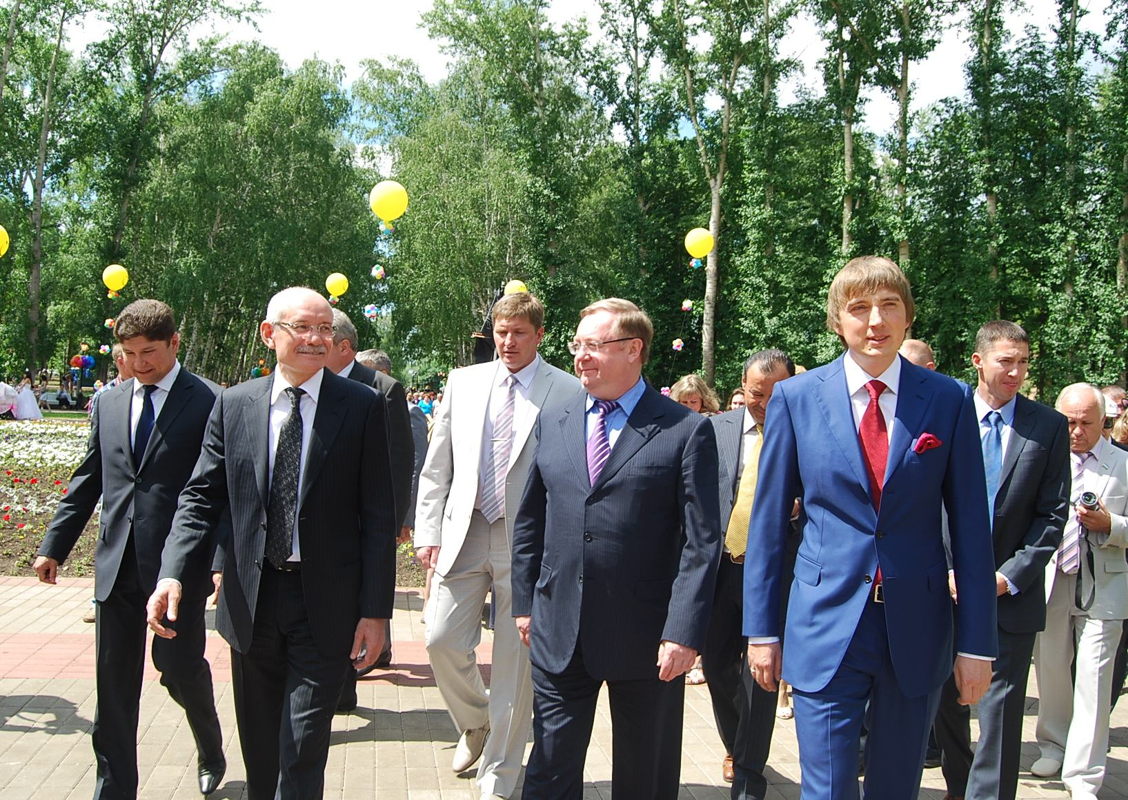 shavaleev in park Salavat